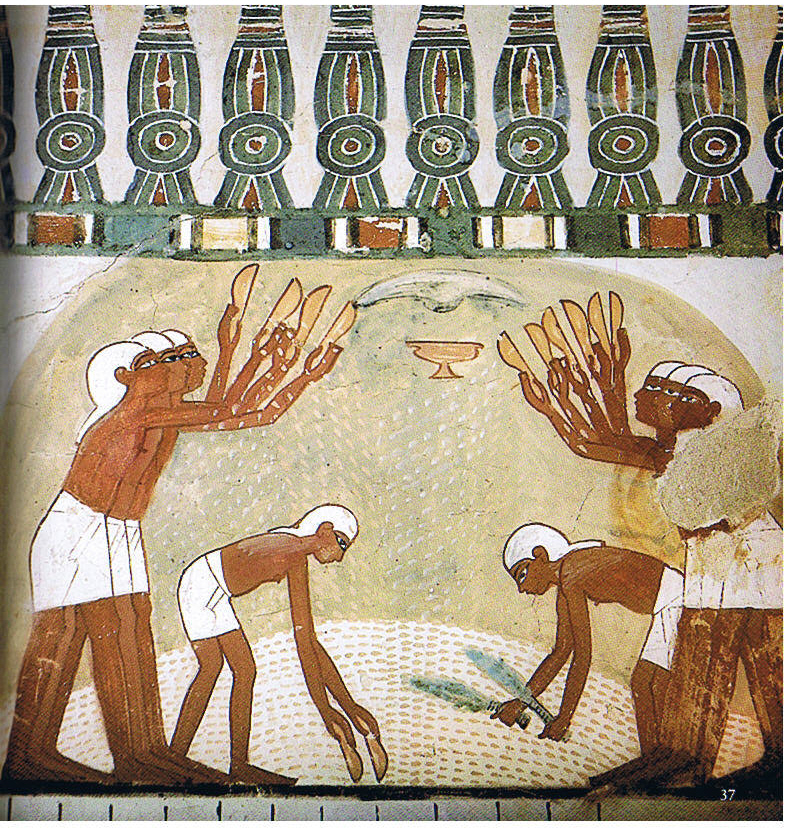 Use of a Khekher ornament (hieroglyph)